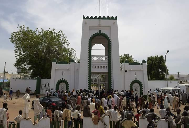 Front of Sokoto Sultanate Place Hausa: Gaban Gidin Masarauntar Sarkin Musulmi dake Sokoto This media shows a cultural heritage object of Nigeria with the Wikidata-ID: d: {1 }| {1 }